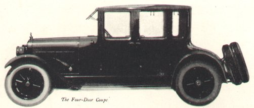 LaFayette Motors Four-Door Coupe magazine ad from 1921 that reads "Some day you will go for a ride in a LaFayette and forever after you will be its champion - It is a car made by men who know their work, a car built for those who have fine things"Coachwork was rendered by LeBaron for LaFayette, which had outsourced actual body construction to the Seaman Corp. in Milwaukee, since 1919 a Nash subsidiary. Model 134 was the only car ever offered by this make. Charles W. Nash founded the company, and bought out the other investors in 1921. Nash Motors bought the assets in 1924, and immediately stopped production of this LaFayette Model 134.